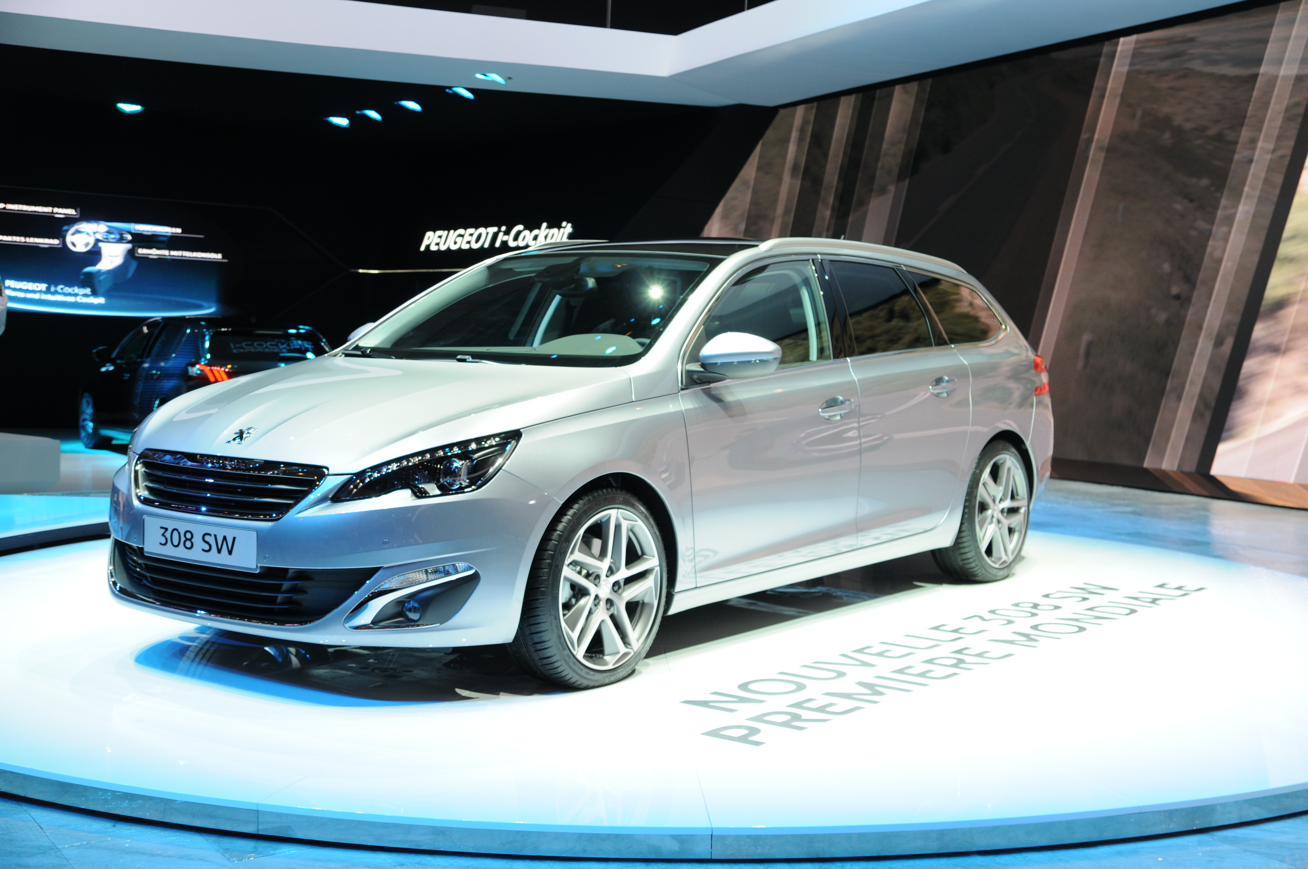 Geneva Motor Show 2014 (photo taken on the first press day)